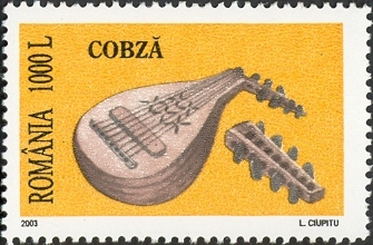 Stamps of Romania, 2003